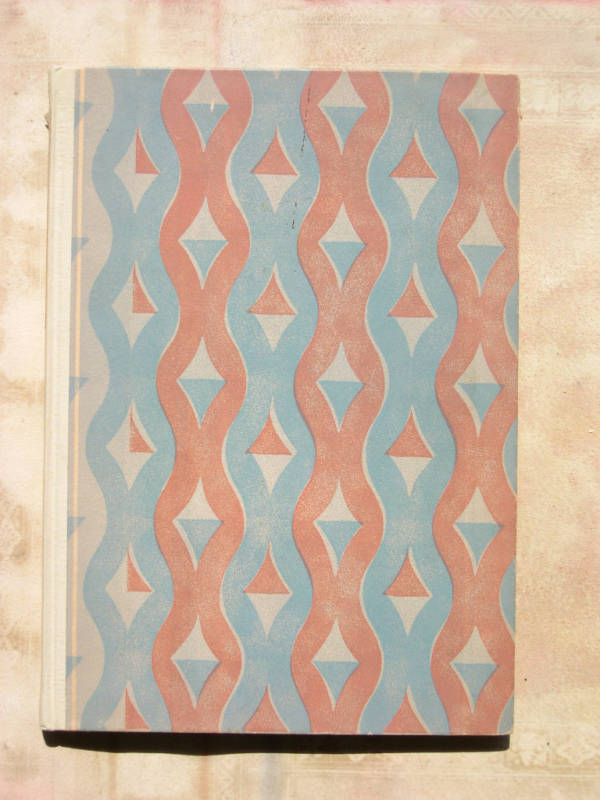 The cover of the book The Journal of Julius Rodman, Being an Account of the First Passage Across the Rocky Mountains of North America Ever Achieved by Civilized Man by Edgar Allan Poe, 1947 reprint by The Colt Press/Grabhorn Press, San Francisco. Mallette Dean, illustrator. Limited Edition. Cloth-backed decorative paper over boards, paper spine label with colored wood engravings by Mallette Dean. 76 pp.